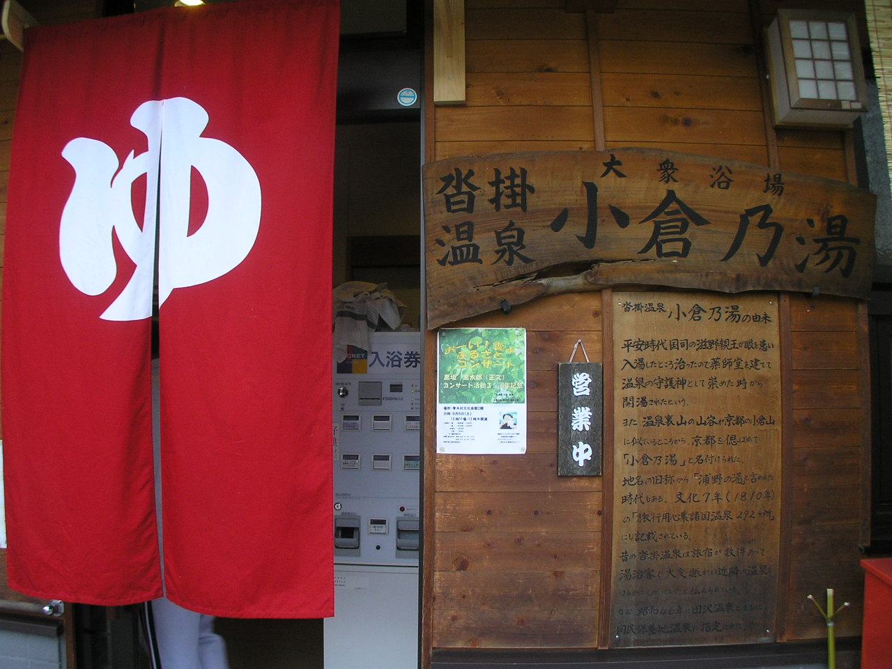 Noren-onsen-kutukake-onsen-oguranoyu-暖簾-温泉沓掛温泉